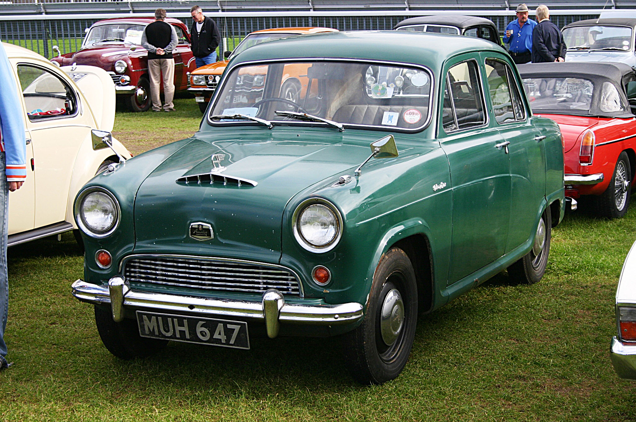 Austin A40 Cambridge. Same body as the A5o Cambridge, just a smaller engine and simpler trim to make a cheaper car.Redsimon 21:00, 3 July 2007 (UTC)